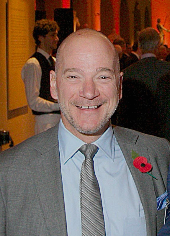 Andrew McAfee, co-author of Second Machine Age, at the FT Business Book of the Year Award 2014 at the V&A.